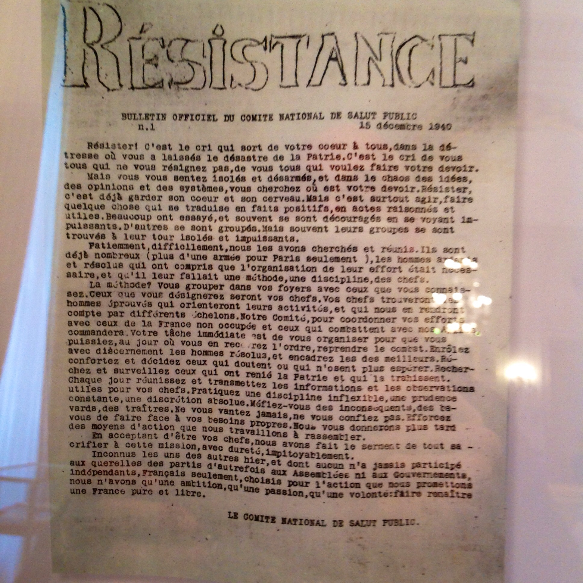 First issue of the newspaper Resistance, from the Musee de l'Homme group, December 15, 1940, on display at the residence of the ambassador of The Russian Federation to France, Paris, September 19, 2015